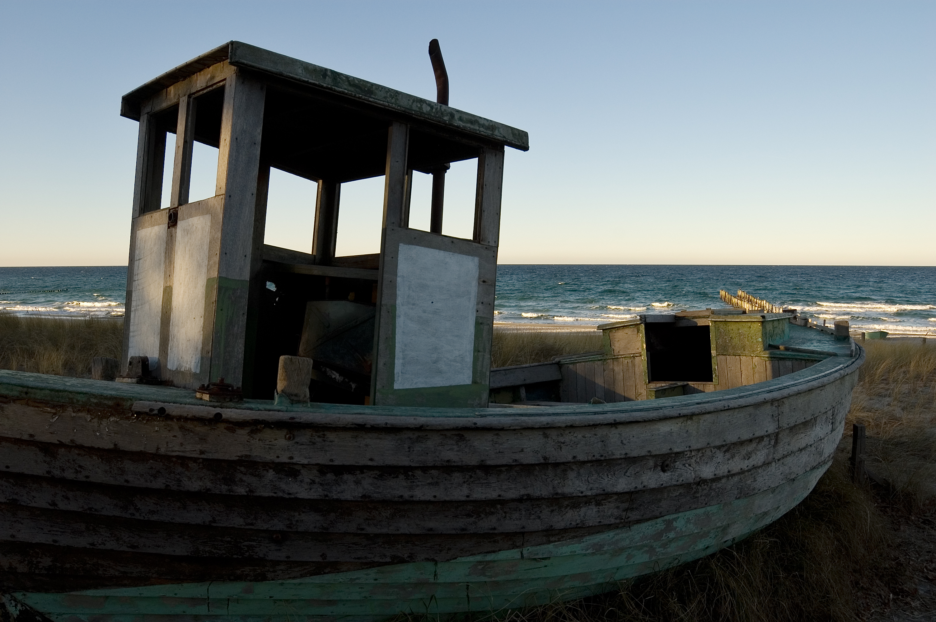 An old fishingboat at the coast of the seaside resort Zingst in Nordvorpommern, Germany